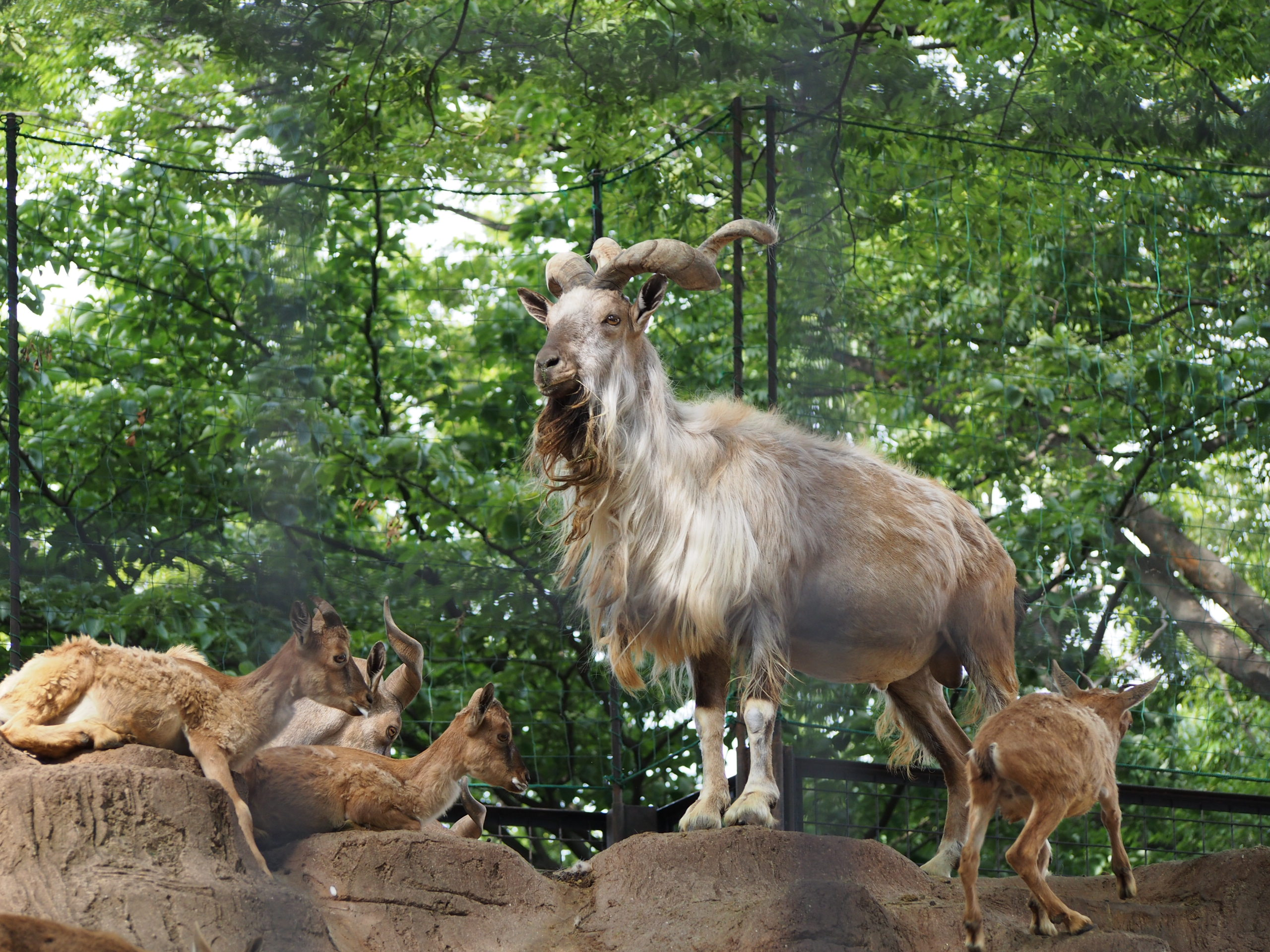 Markhor (Capra falconeri) in Yumemigasaki Zoo, in Kawasaki, Kanagawa Prefecture, Japan.